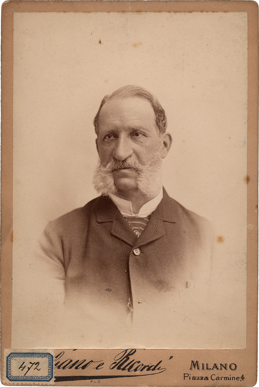 Portrait of Tito I Ricordi, publisher (1811-1888). Photo by Pagliano & Ricordi, Milano, before 1888.